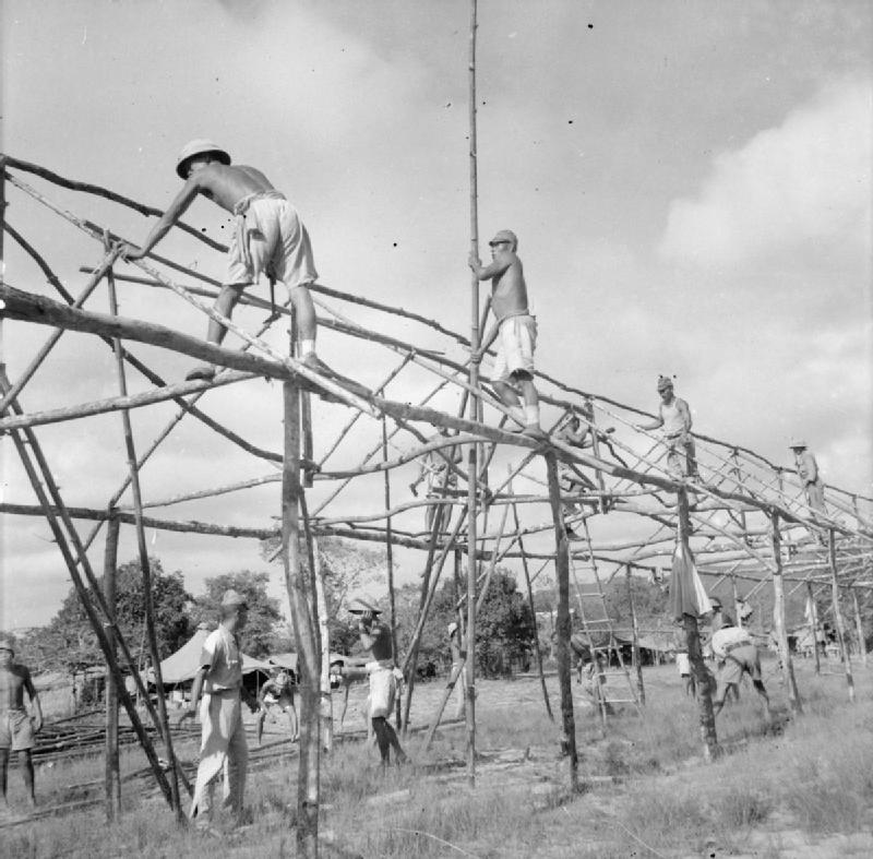 The Allied Reoccupation of French Indo-china Japanese prisoners of war construct their own living quarters at a camp at Cape Saint Jacques, which housed up to 38,500 prisoners.